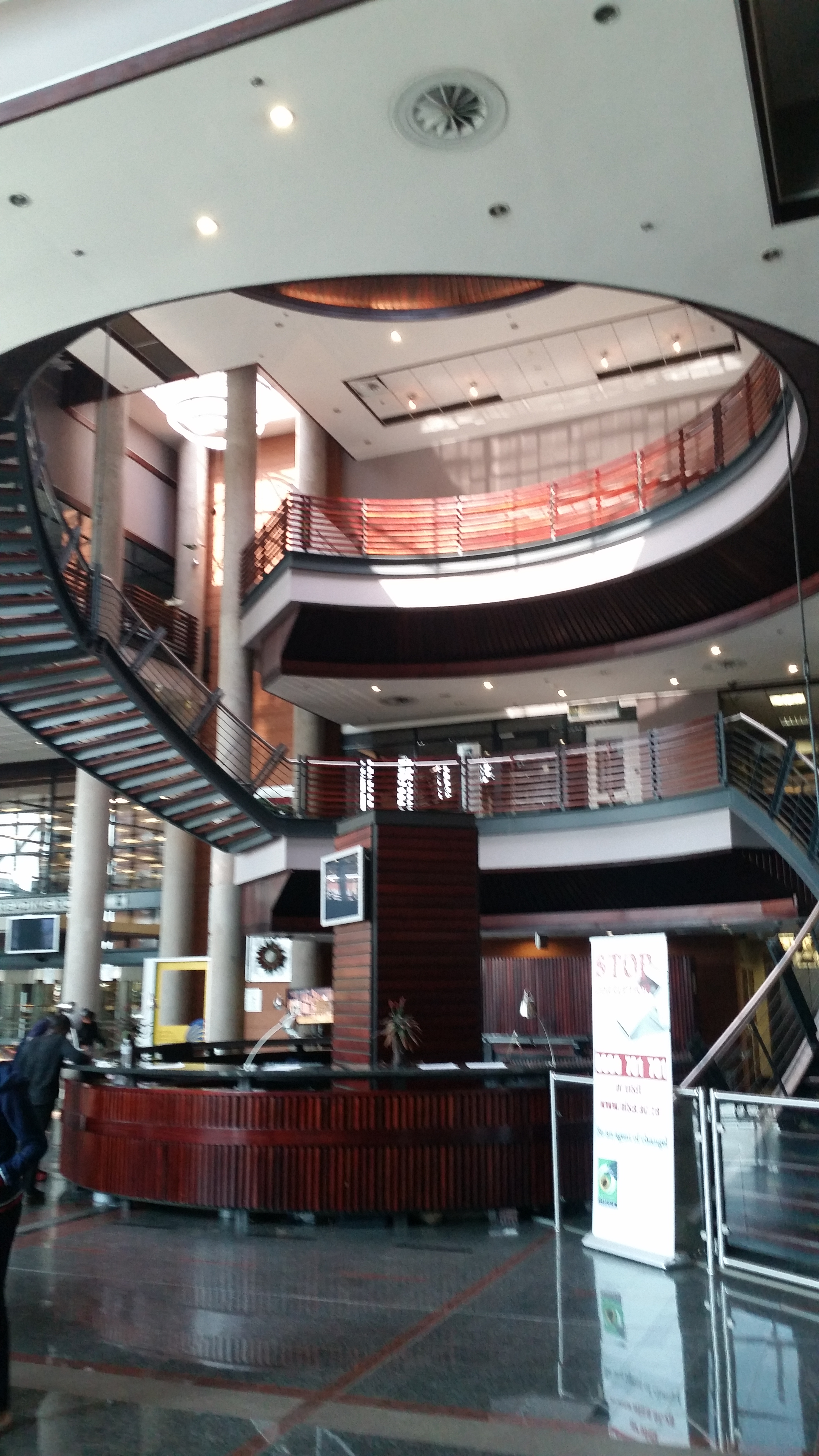 Entrance foyer and main information desk of the of the new National Library of South Africa in Pretoria. Constructed 2008.